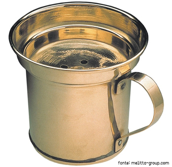 Melitta first coffee filter, brass cup and blotting paper, 1908er